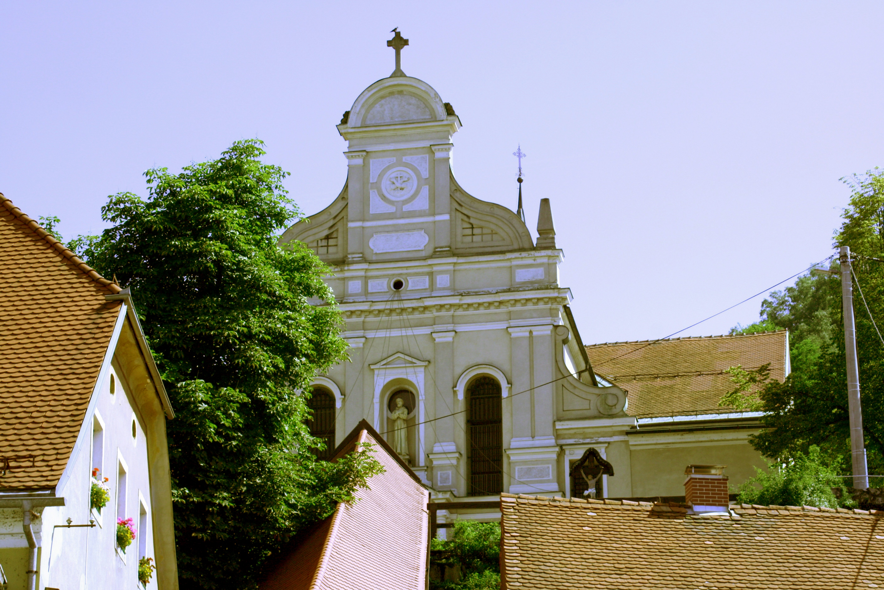 Celje, St. Cecilia's Church.